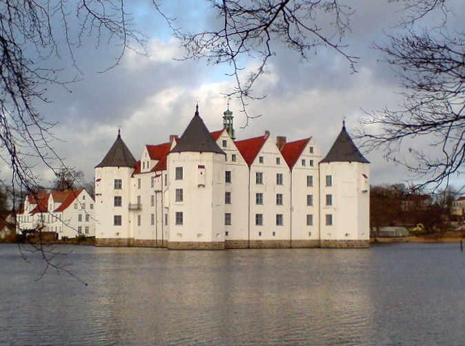 Gluecksburg Castle